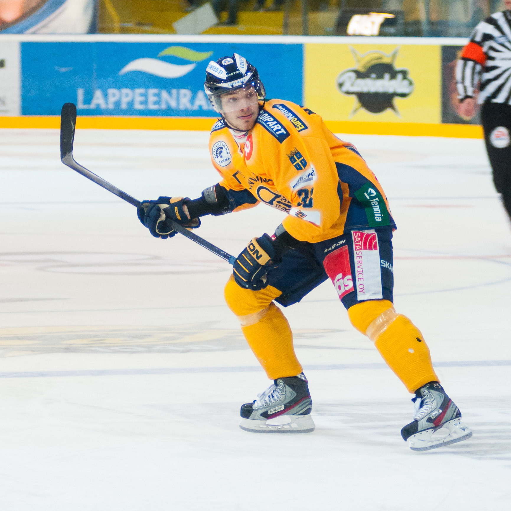 French ice hockey left winger Charles Bertrand playing for Rauman Lukko against SaiPa Lappeenranta in Lappeenranta, Finland.